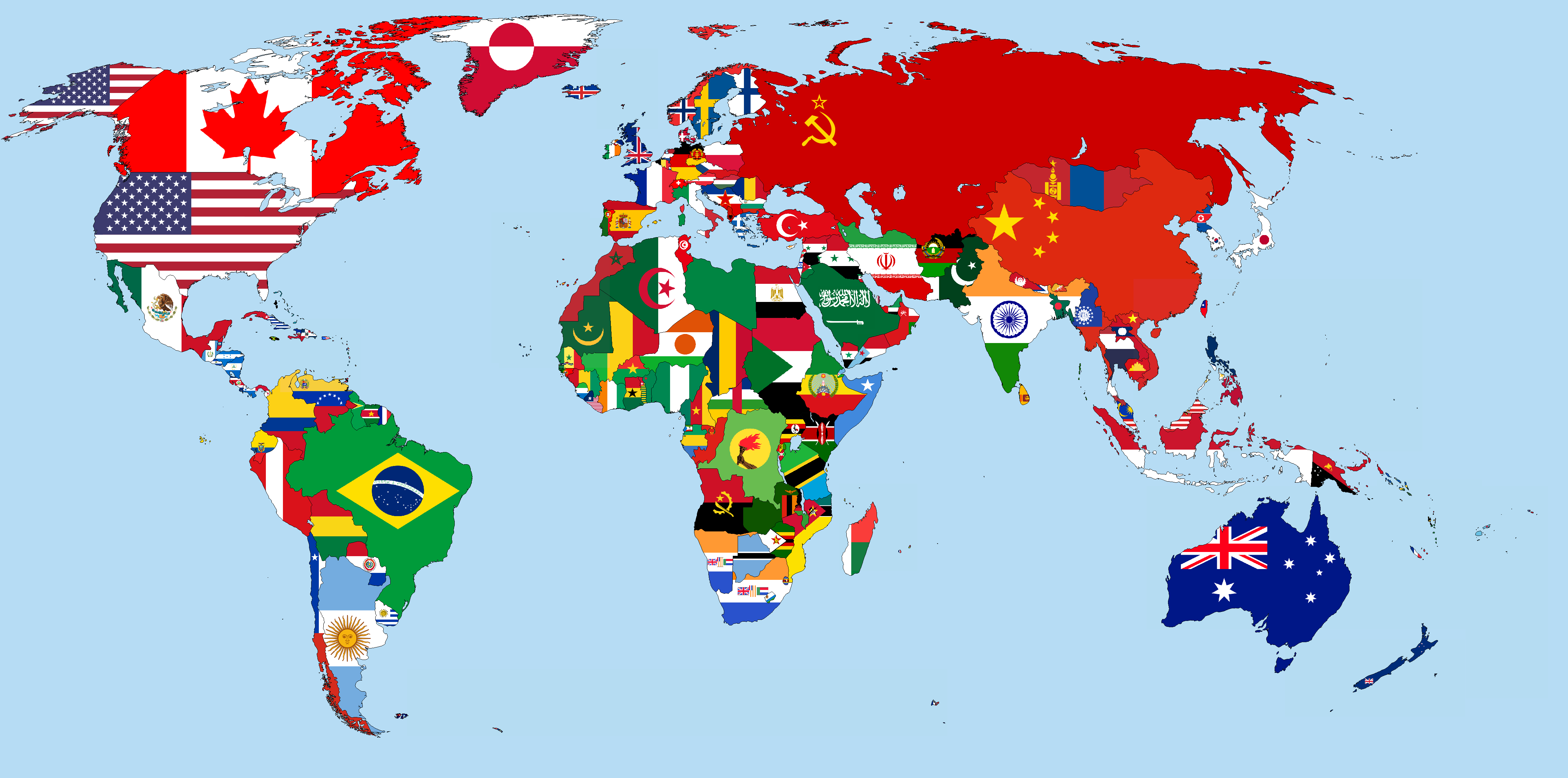 1989 Flags map Flag maps of the world for historical use 1789 · 1900 · 1908 · 1914 · 1930 · 1935 · 1938 · 1942 · 1965 · 1970 · 1972 · 1974 · 1989 · 1990 · 1991 · 1992 · 1993 · 2010 · 2012 · 2013 · 2015 · 2016 · 2017 · 2018 (this template: • view • discuss )